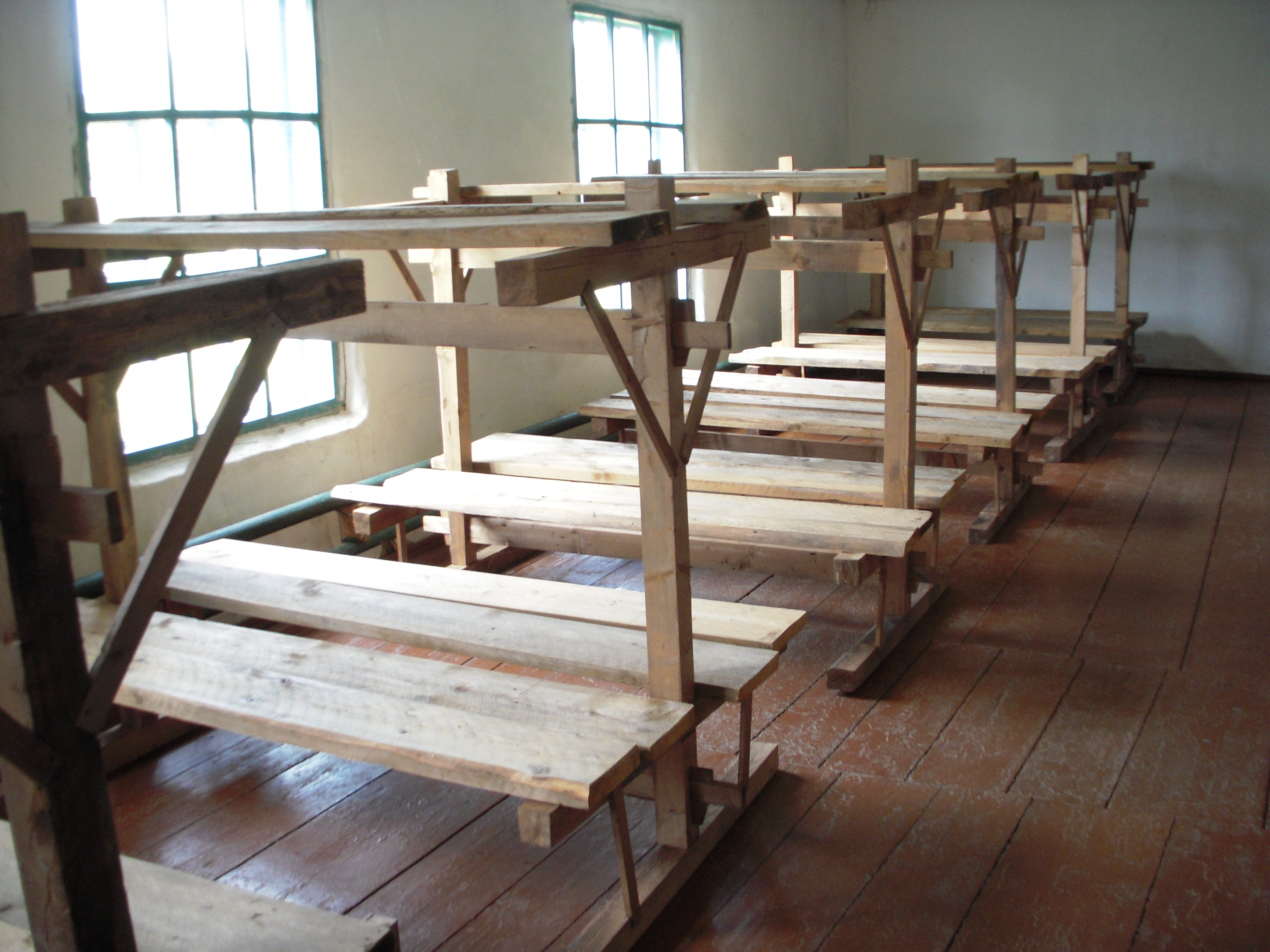 Gulag Perm-36 (Russia, Kuchino near Chusovoi). Reconstruction of a cell for prisonniers.